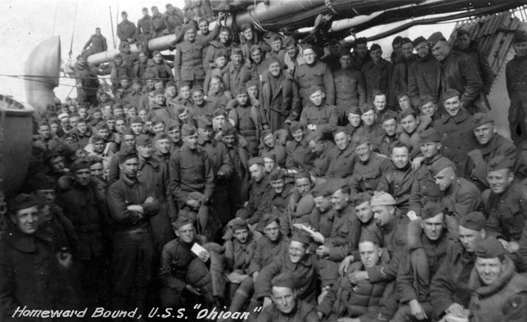 USS Ohioan (ID # 3280) Homeward bound troops pose on the ship's deck, 1919. The original image was printed on postal card ("AZO") stock. Donation of Dr. Mark Kulikowski, 2006. U.S. Naval Historical Center Photograph.